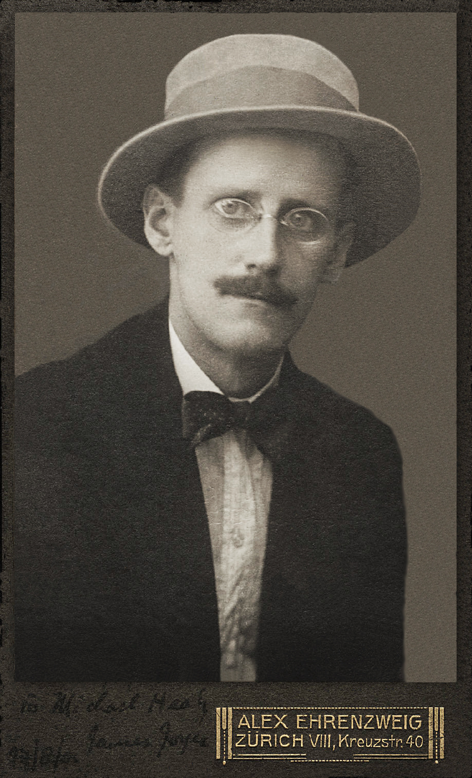 James Joyce, 1 photographic print, b&w, cartes-de-visites, 9.2 x 6.1 on mount 10.5 x 6.5 cm.